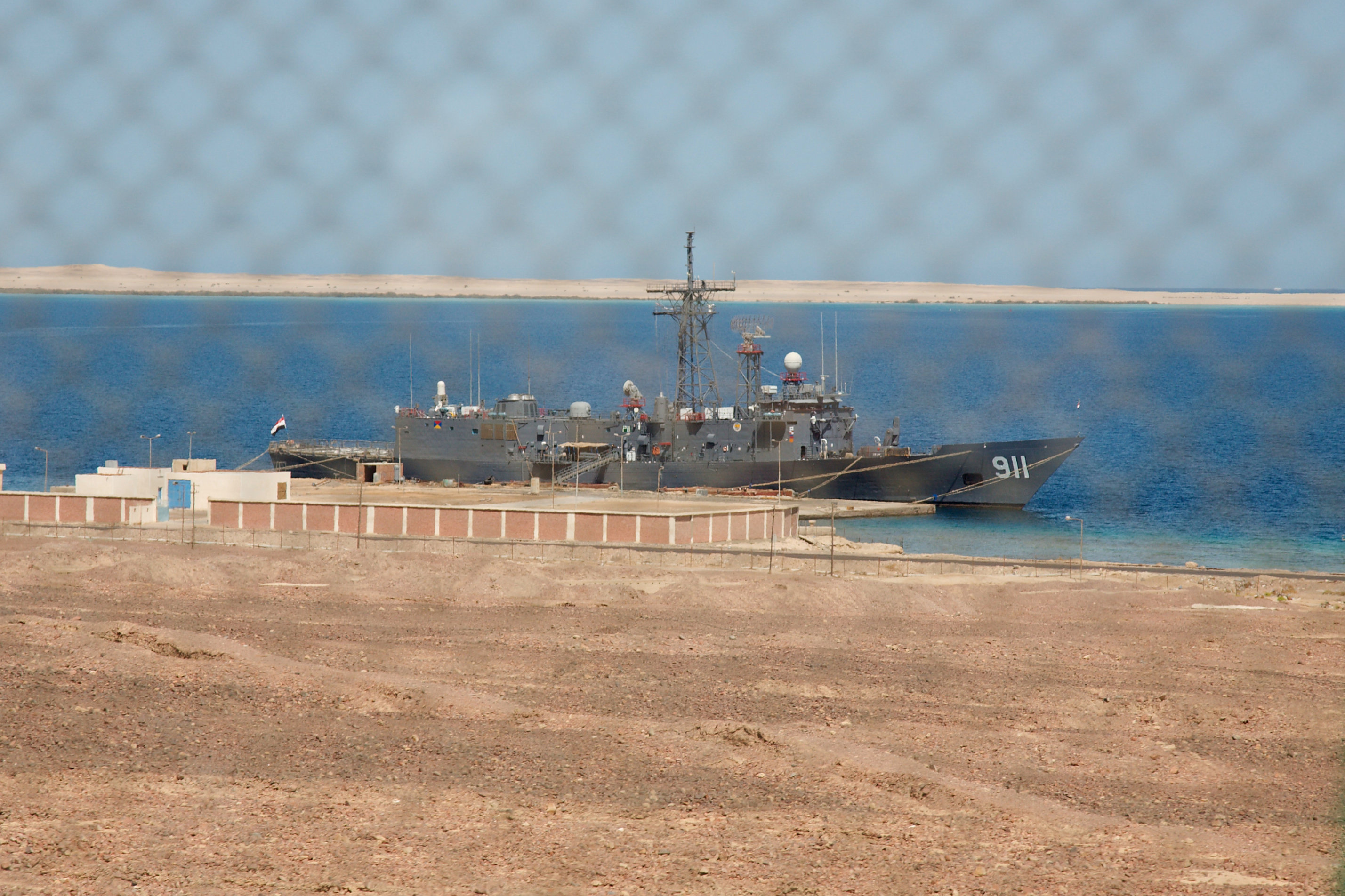 Egyptian frigate Mubarak (F911), former USS Copeland (FFG-25). The ship was renamed Alexandria. Picture taken from a bus on the coast road